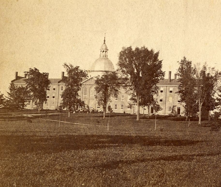 Old Mill at the University of Vermont during the late 1800s